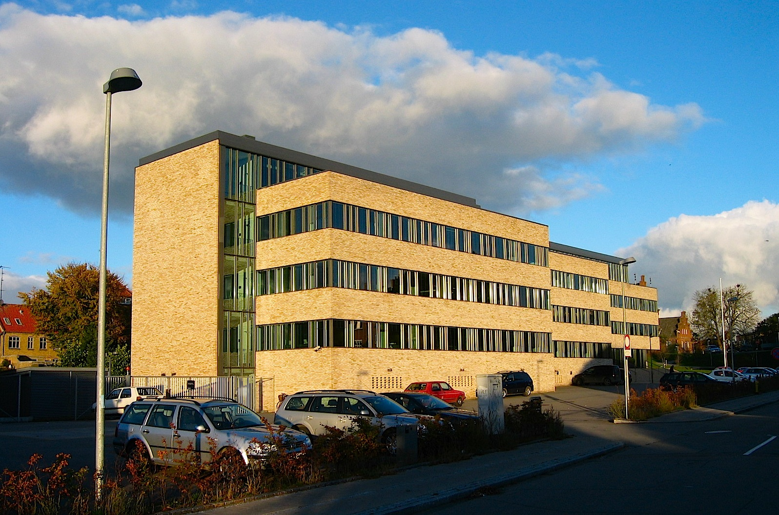 Roskilde, Denmark. New Police HQ